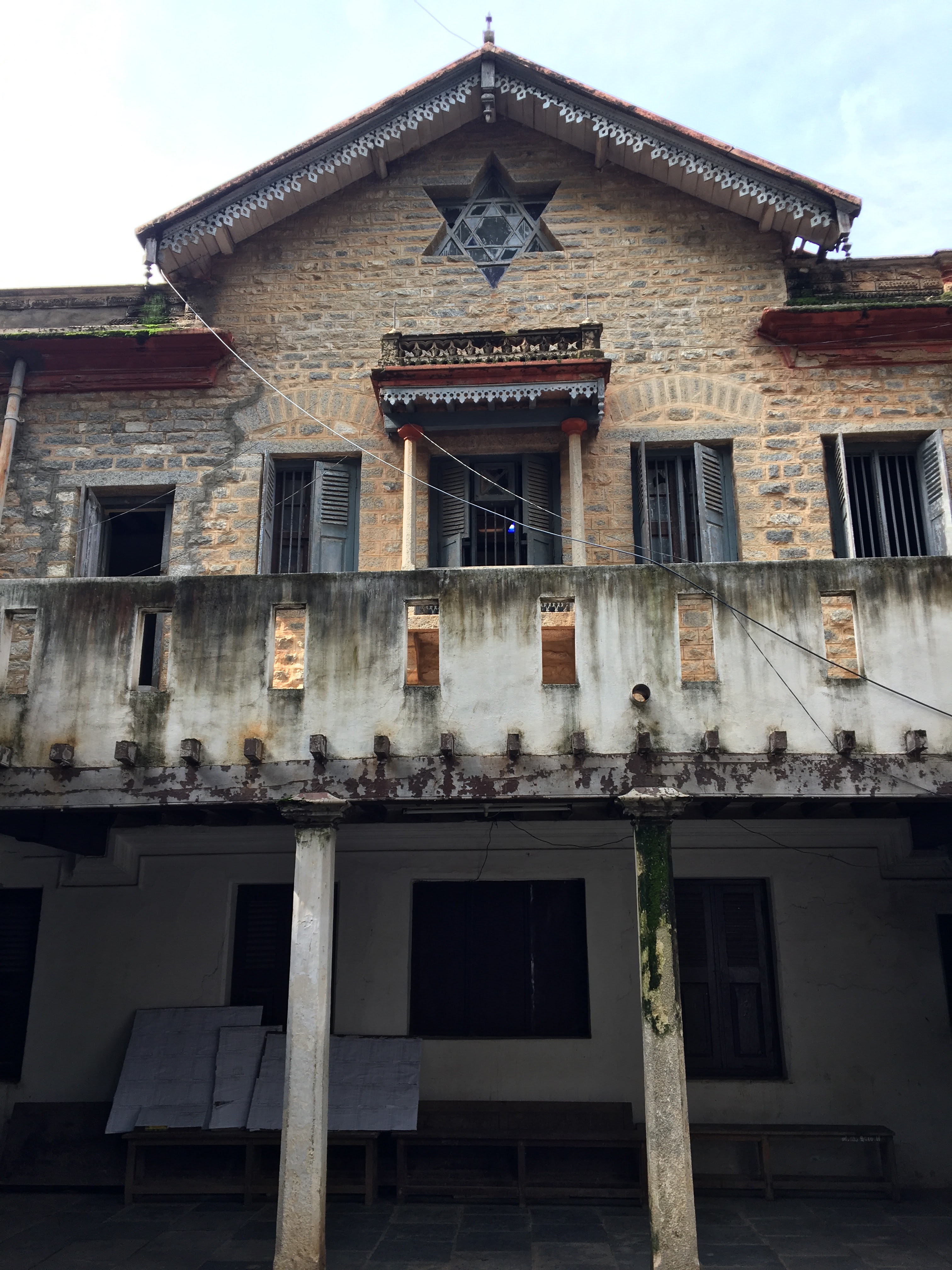 H.V. Nanjundaiah donated his home to the government to make it into an educational institute for girls, which is what surrounds it today.